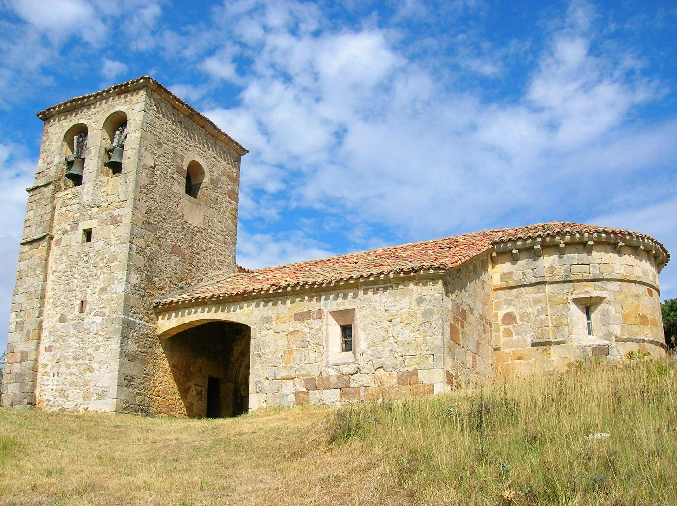 Iglesia de San Martín, Prádanos del Tozo (Burgos)